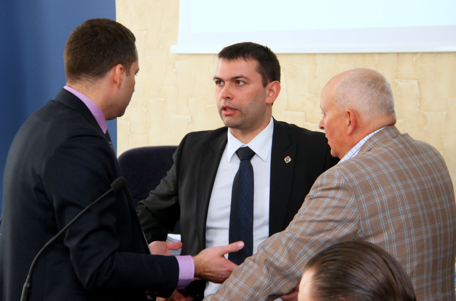 Remigijus Osauskas